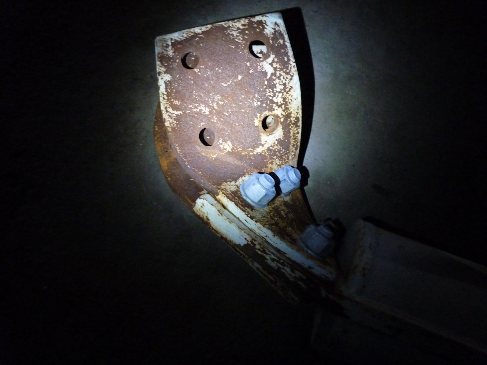 A destroyed joint from the 2008 Southern Star